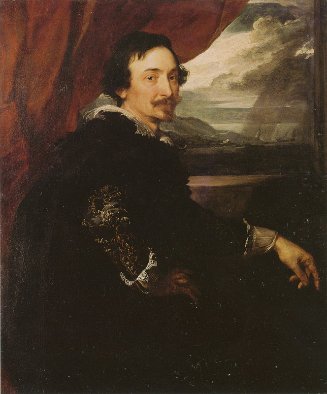 This image is available from the Netherlands Institute for Art Historyunder digital ID 54757. This tag does not indicate the copyright status of the attached work. A normal copyright tag is still required. See Commons:Licensing.